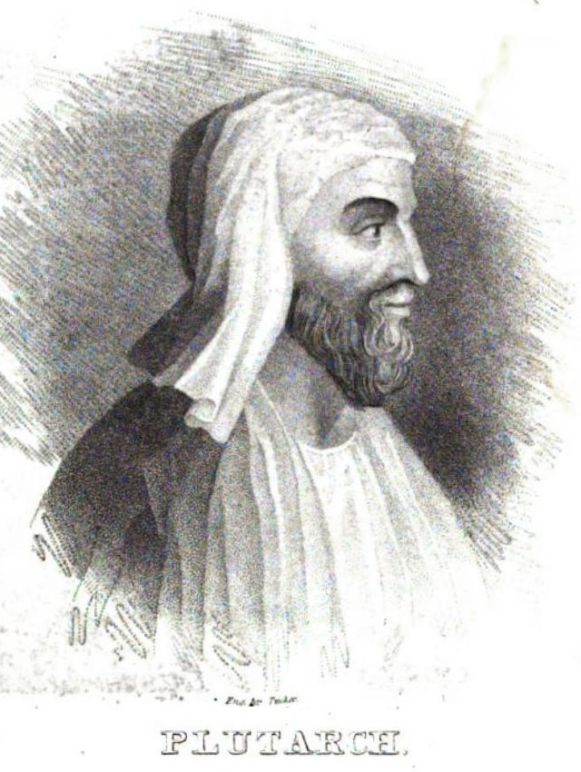 From the frontispiece of Plutarch's Lives by John Langhorne and William Langhorne. Published: Baltimore: W. & J. Neal, 1836